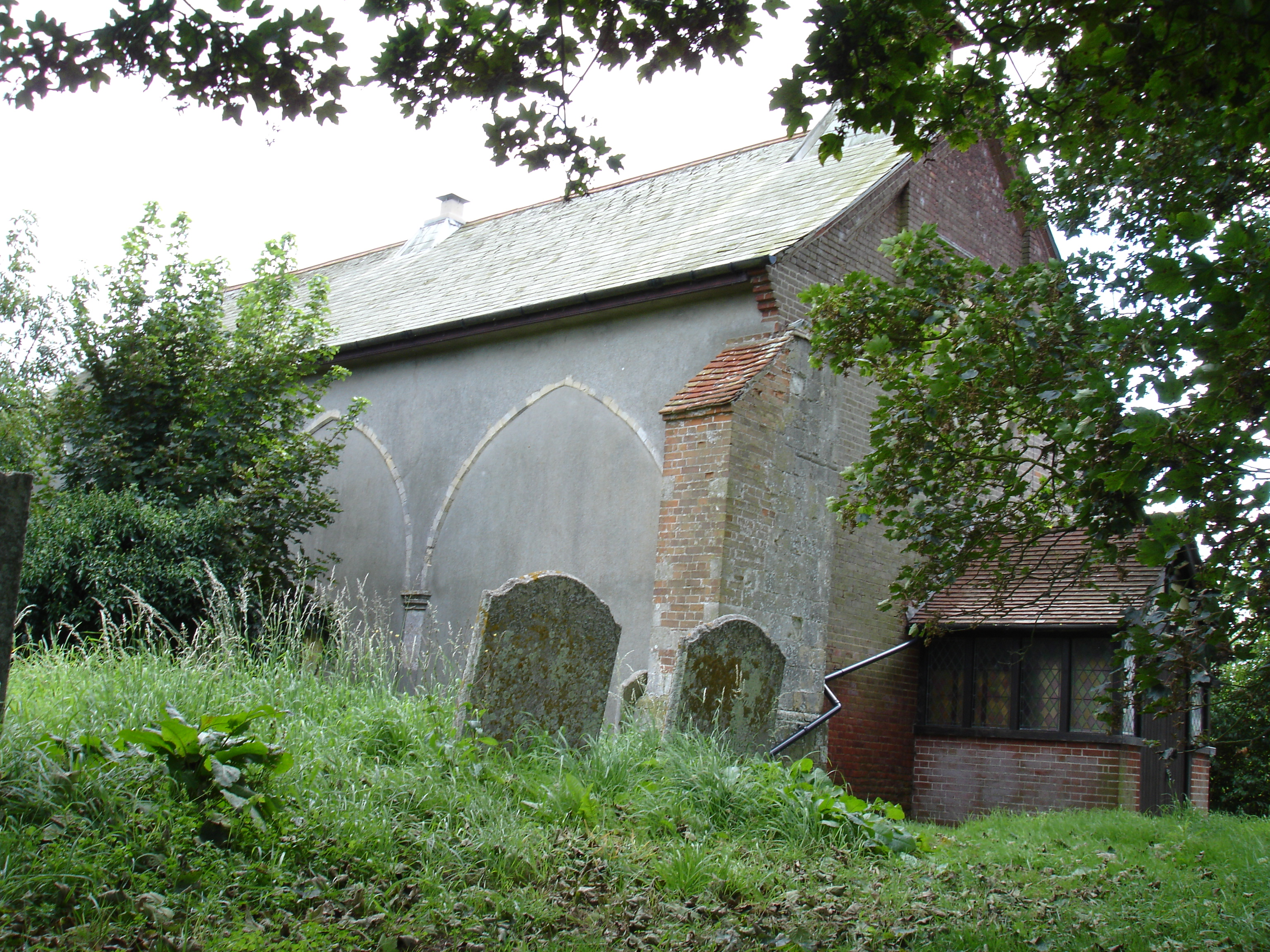 Photograph of the remains of Wix Priory, Wix, Essex, England, now forming the north wall of the church of St Mary the Virgin